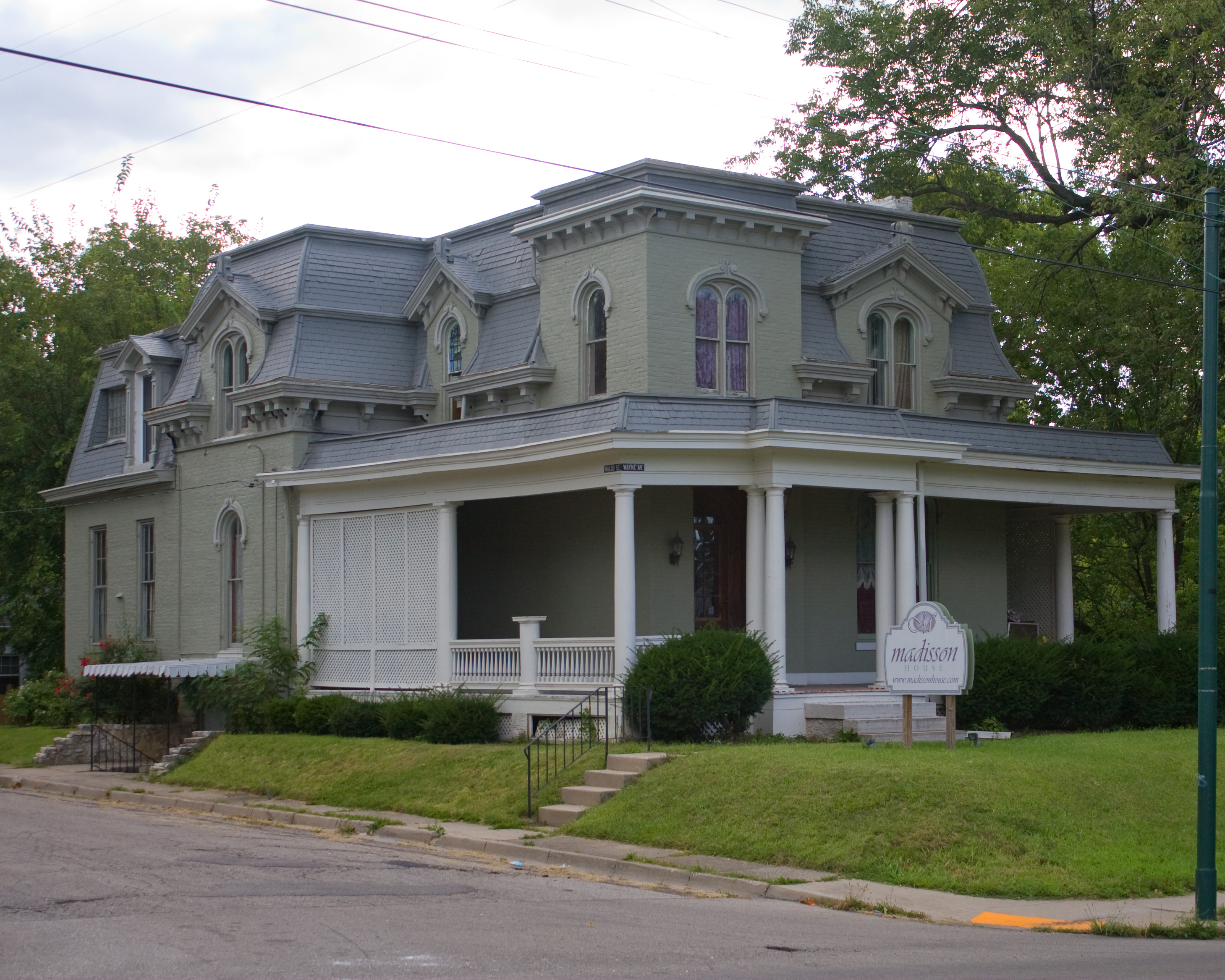 Samuel N. Browen House in Dayton, OH